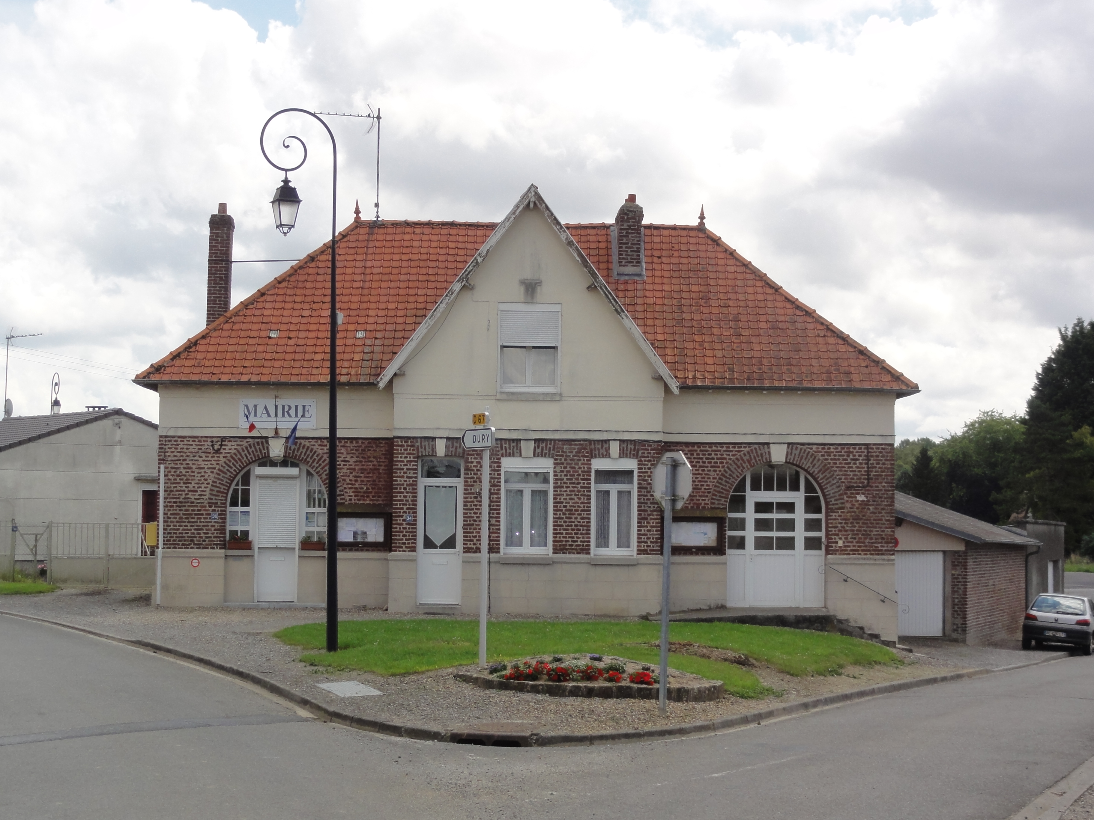 Pithon (Aisne) mairie